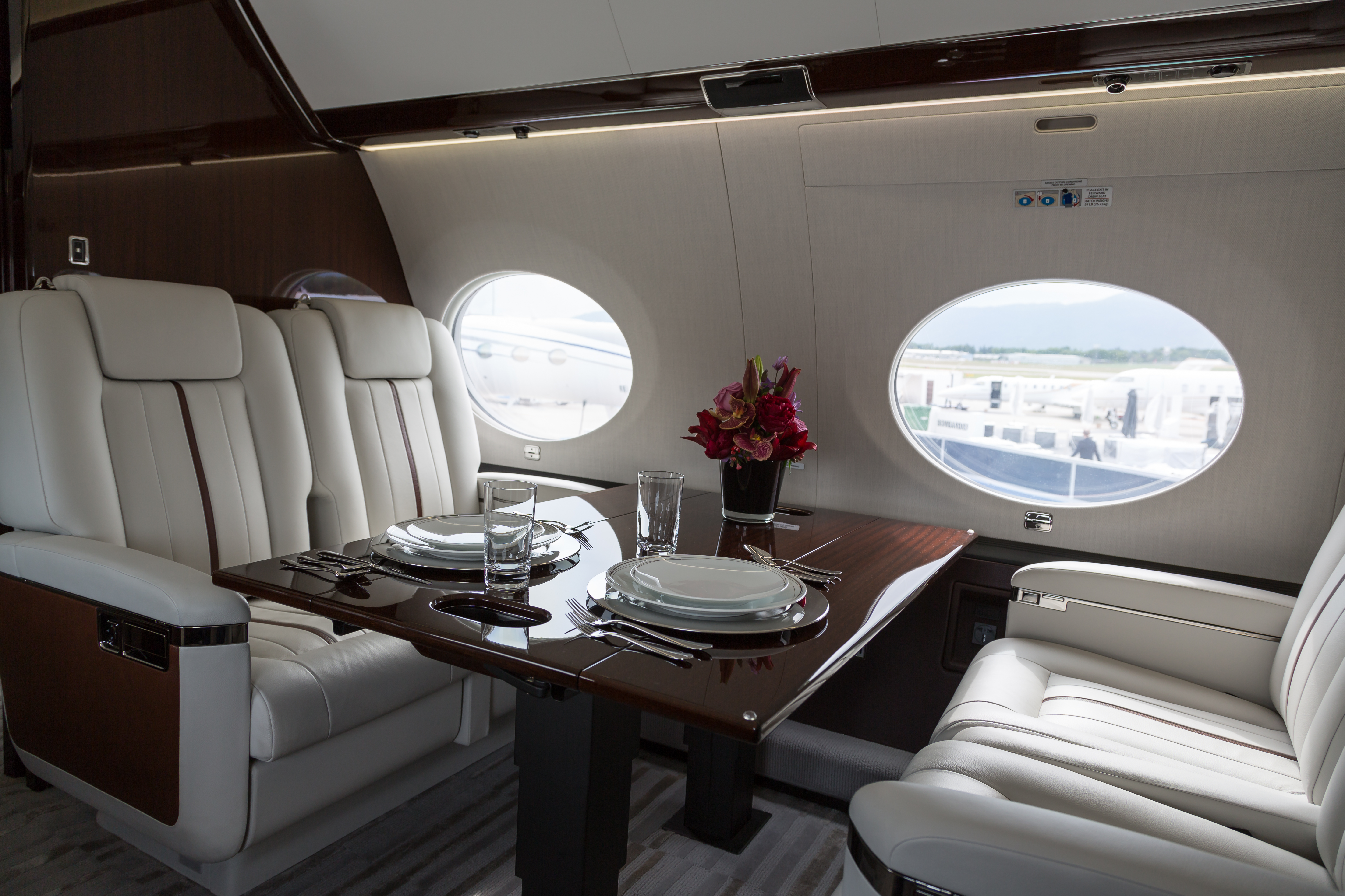 Gulfstream G650ER, EBACE 2018